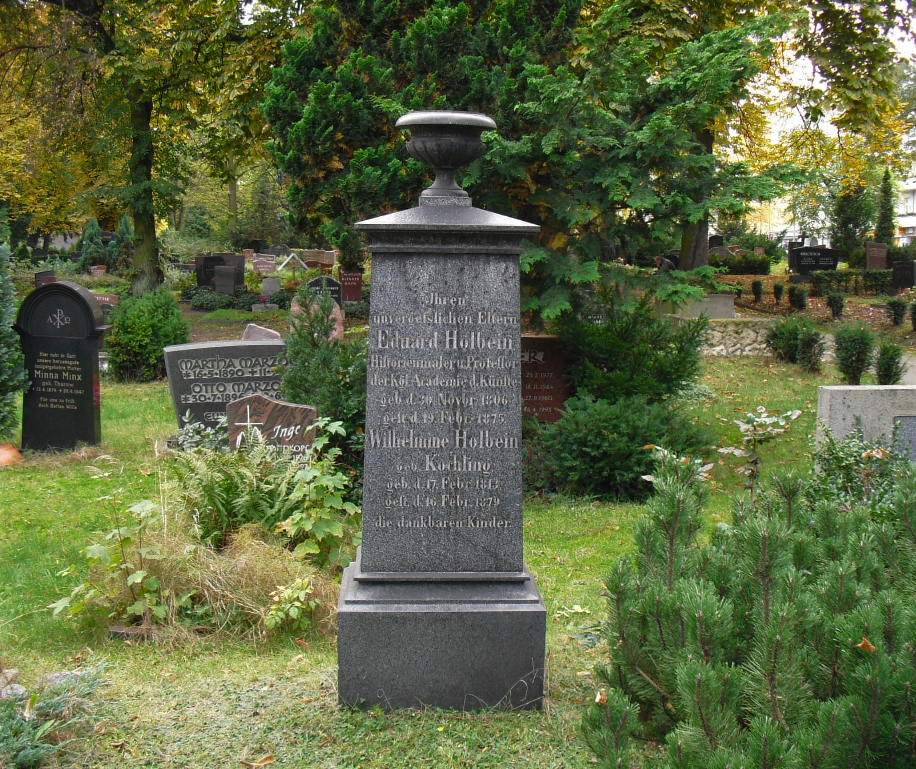 Grave of German painter Eduard Holbein in Alter St.-Jacobi-Friedhof in Berlin-Neukölln